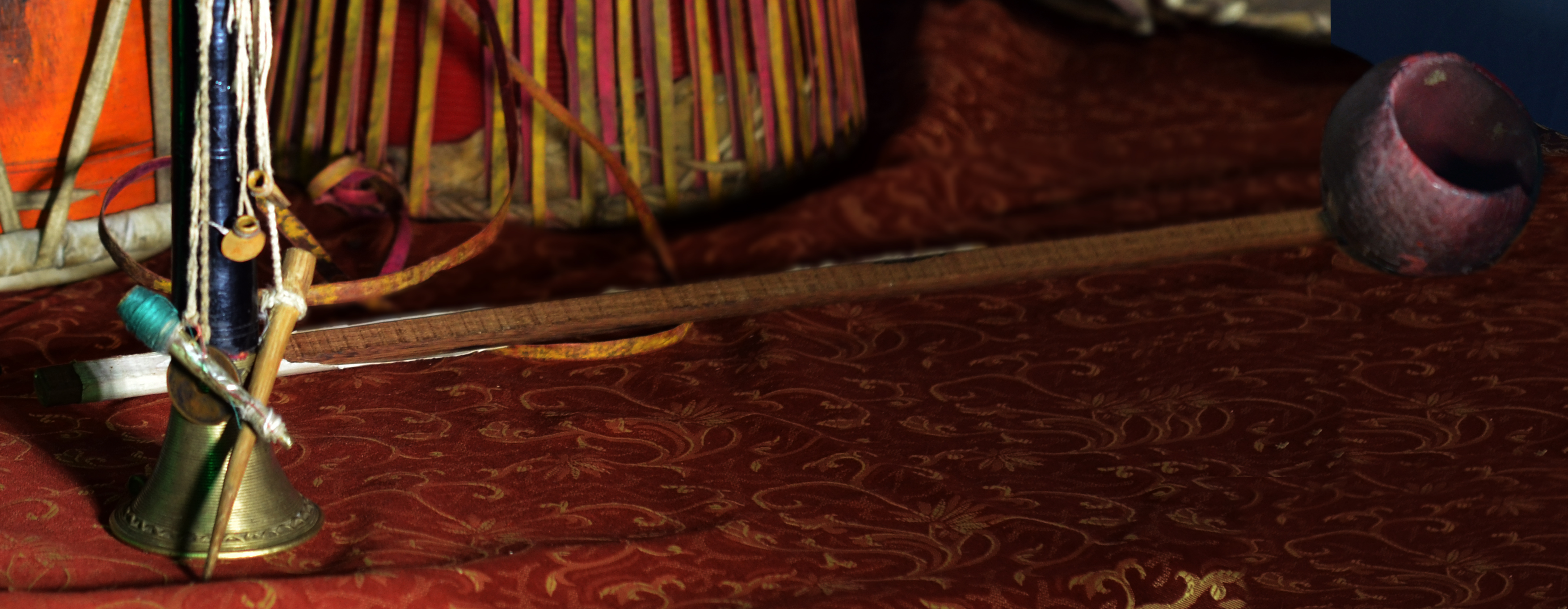 Mahuri and Jhuila (used in Dhajatala dance) are wind and string instruments respectively used during the Chhau dance. Chhau is a martial art form from Mayurbhanj, Odisha, India and is also performed in Seraikela in Jharkhand and Purulia in West Bengal. This picture was captured during an exhibition at the Golden Jubilee Celebration of Utkal Sangeet Mahavidyalaya.